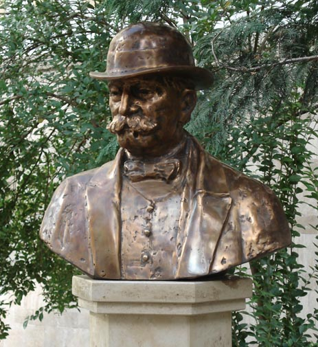 Statue of Endre Latabár (1811–1873), actor, director. Sculptor: Éva Varga